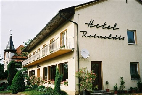 Hotel Reineldis in Mureck, Styria, Austria, built in the late 1950s